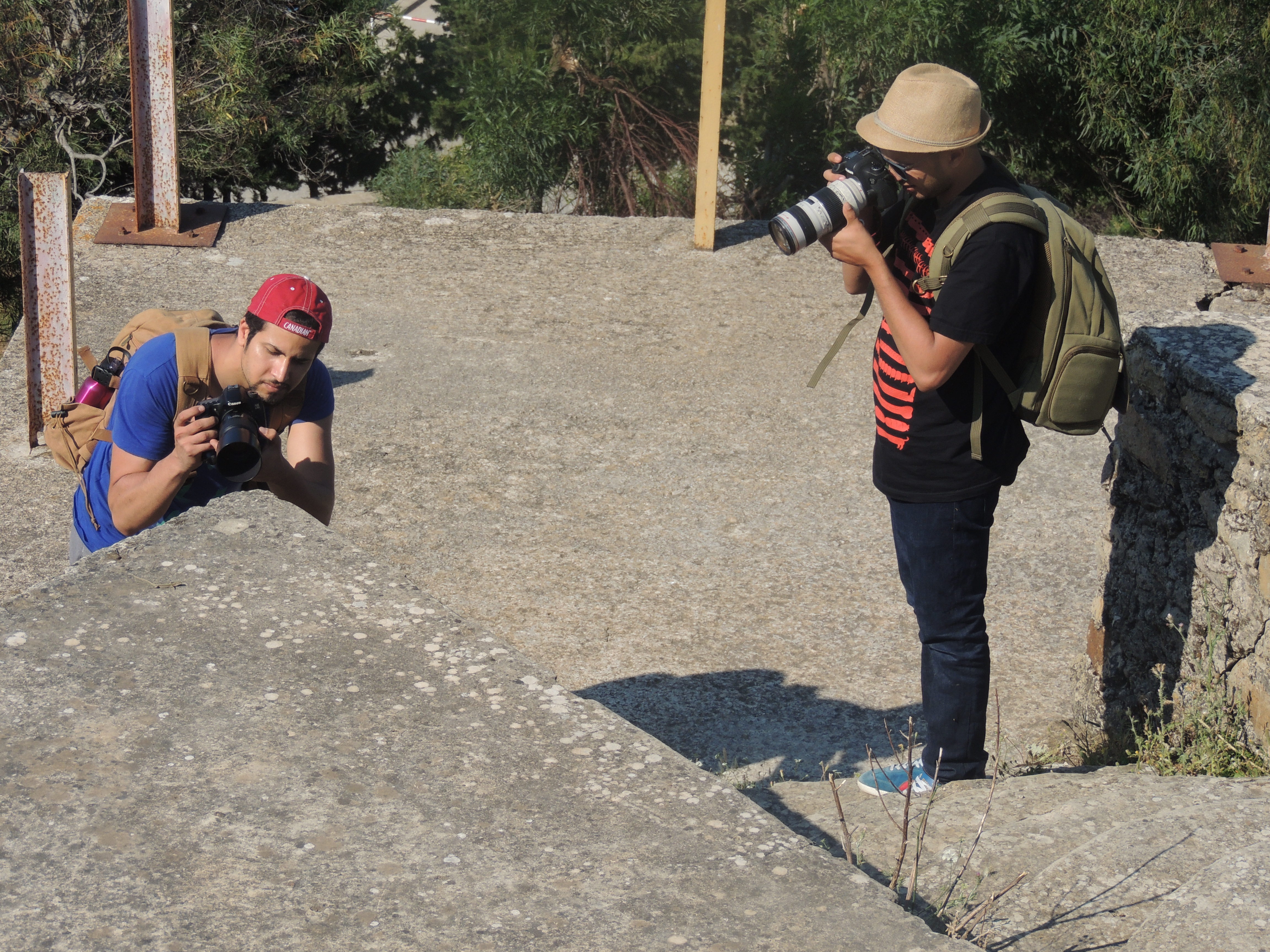 photo walk wiki loves earth Tunisia